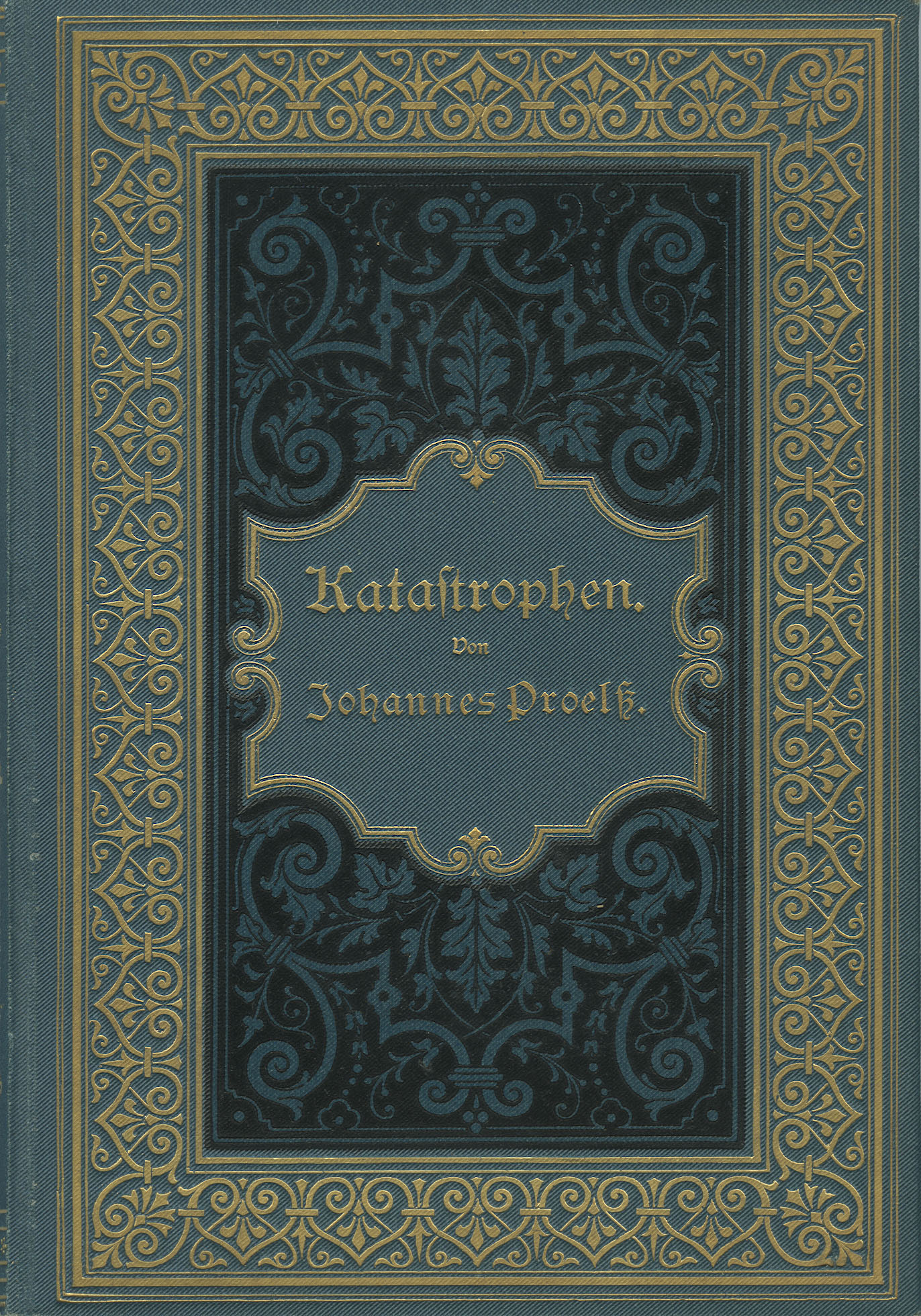 Cover of Johannes Proelß: Katastrophen